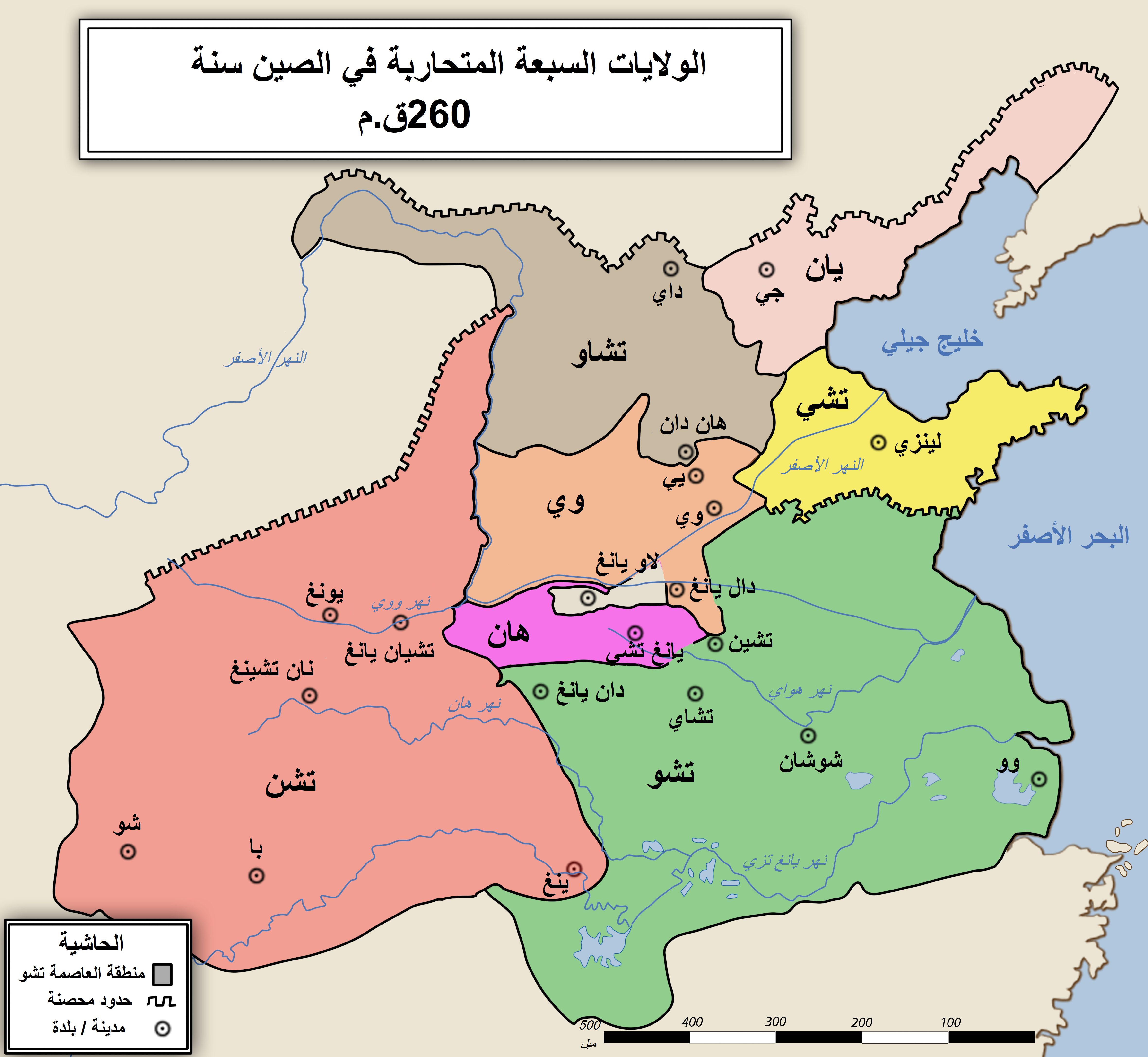 China Map 260BCE Warring States Period